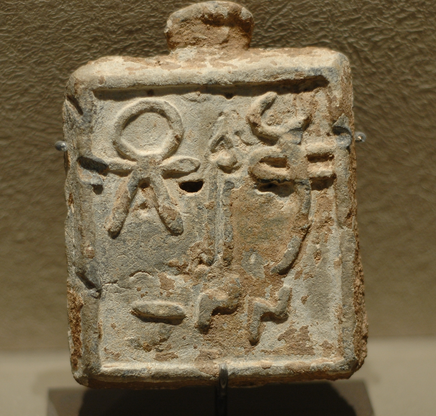 Square weight bearing the sign of Tanit, the Phoenician lunar goddess. Lead, 5th–2nd centuries BC, Phoenician kingdom of Arados.